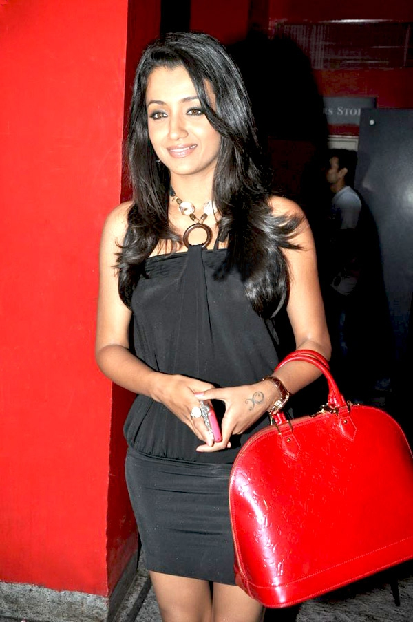 Indian actress Trisha Krishnan at the screening of the Bollywood movie Khatta Meetha